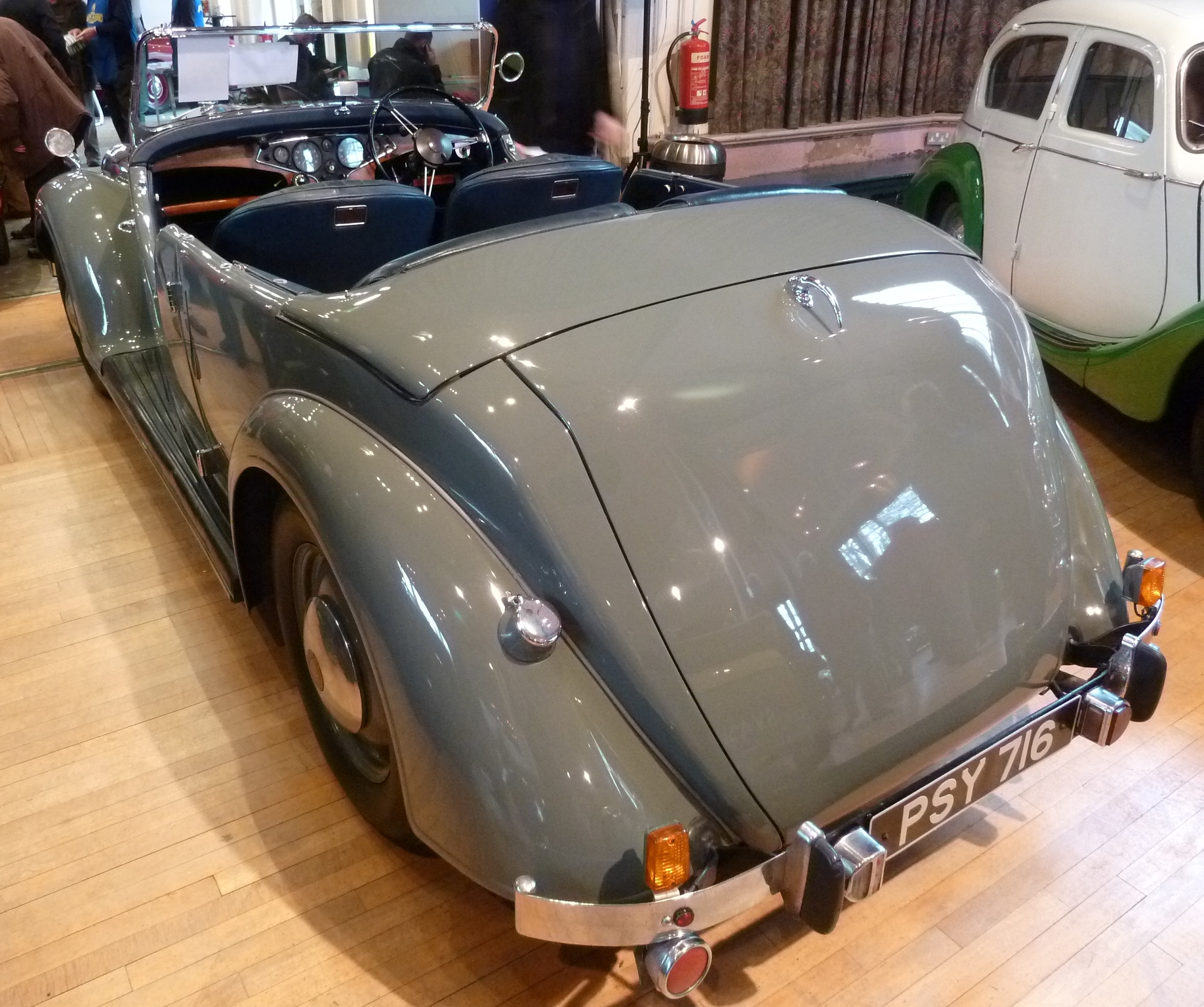 1947 Rover 12hp Tourer (DVLA) 1495cc Reg Number:PSY 716 Chassis Number:7250109 Engine Number:L01093000